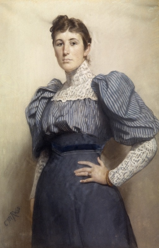 Portrait of Nini Roll Anker.